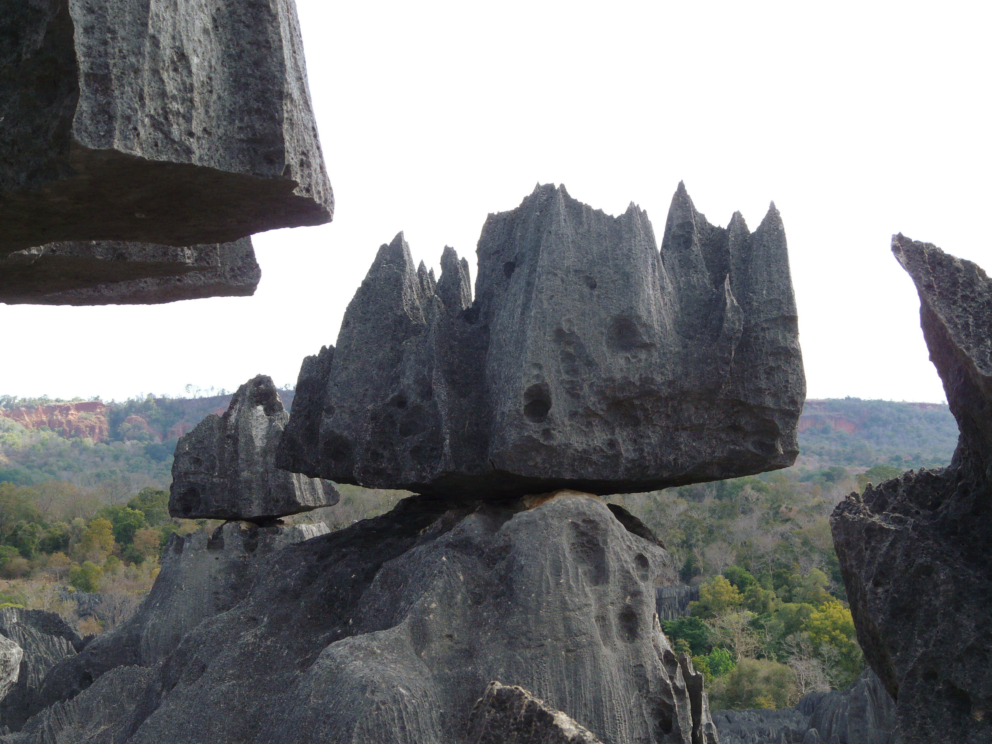 Rock at Tsingy